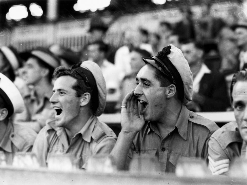 Navy men cheering for their soccer team, Brisbane, March 1945. Royal Navy men barracking for their fleet in the soccer game between Royal Navy and Brisbane at the Exhibition Ground. (Description taken from: Sunday Truth, 03 March 1945).